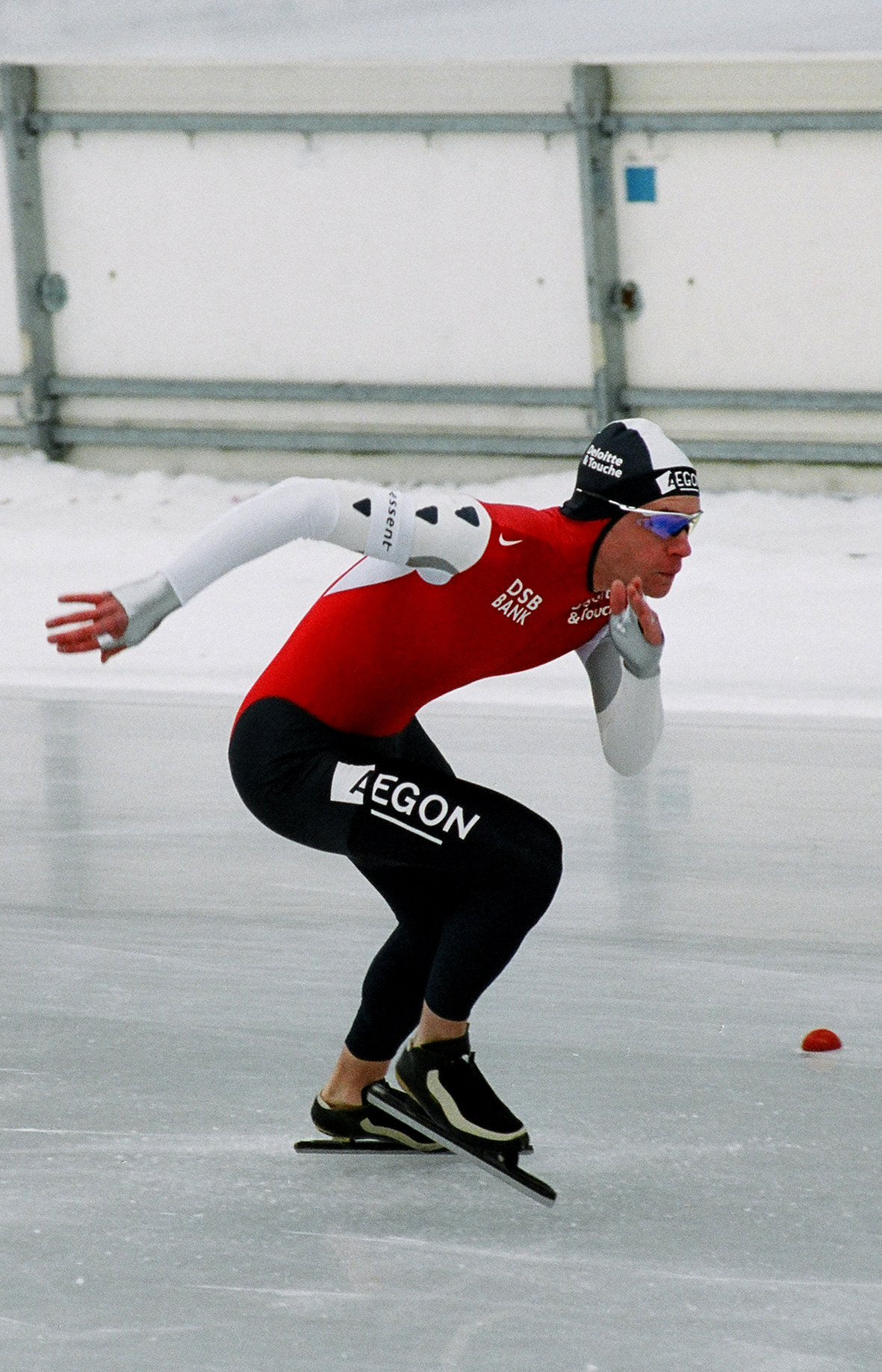 Dutch speedskater Jan Bos.